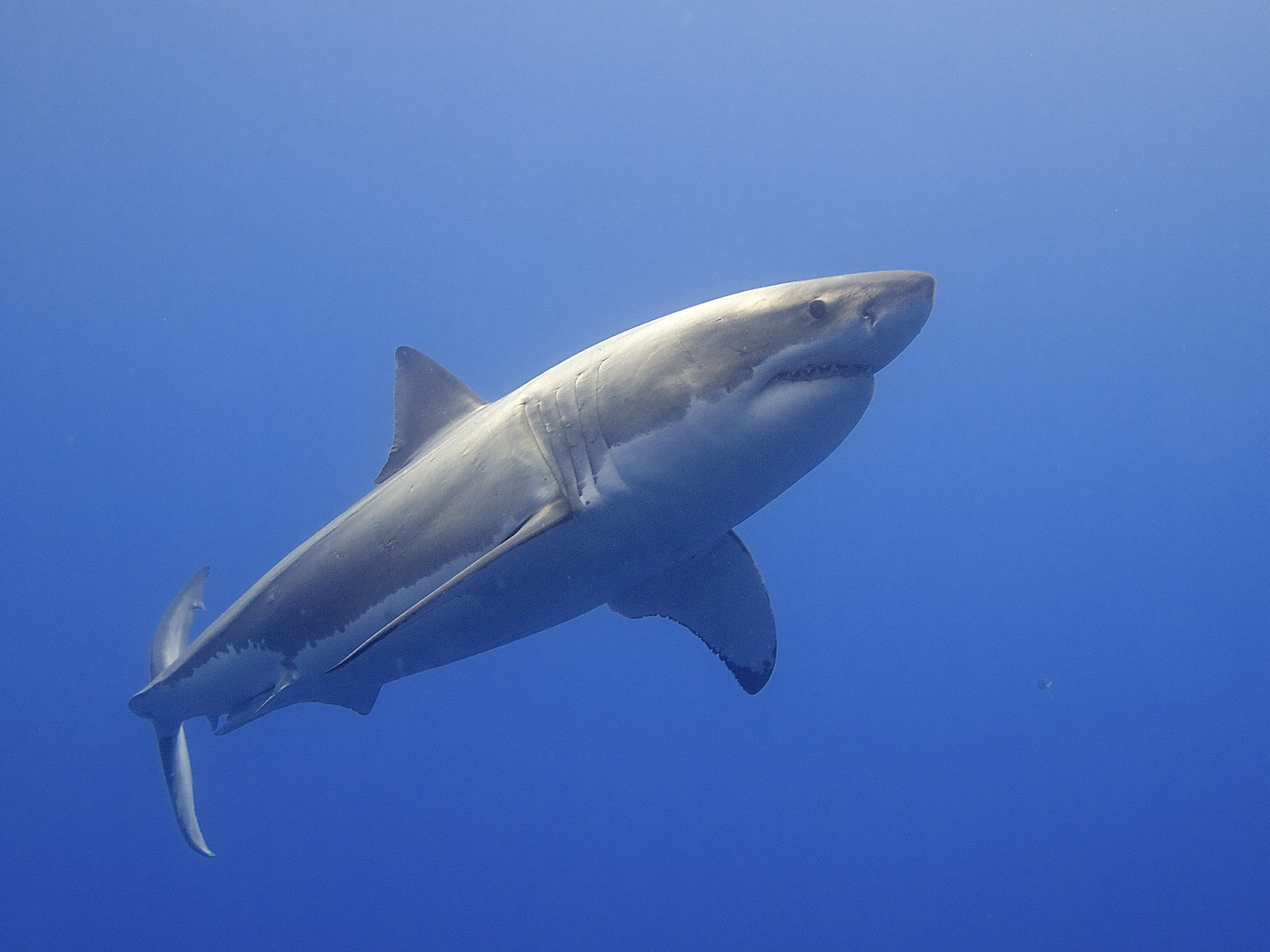 Great White Shark